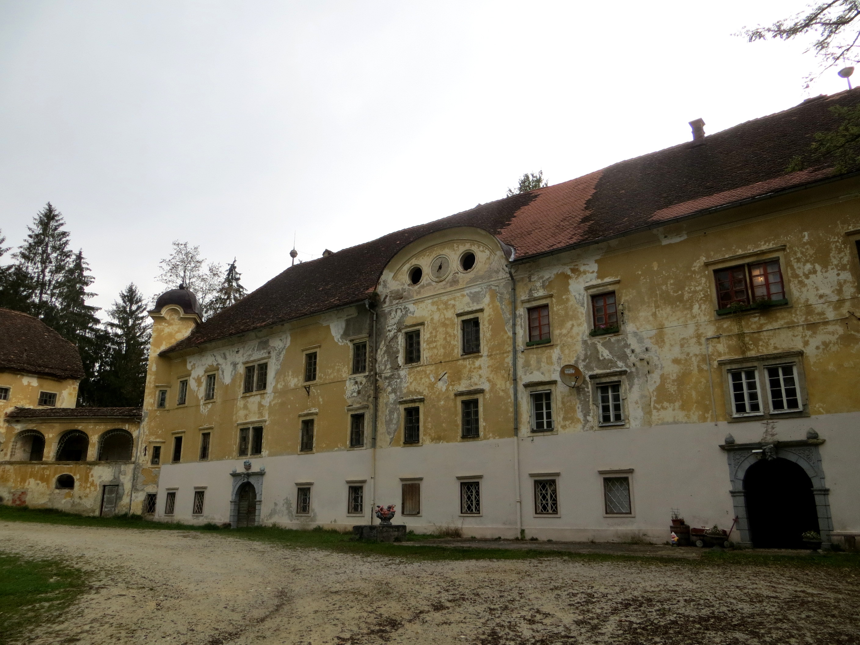 Ponoviče Castle in Ponoviče, Municipality of Litija, Slovenia